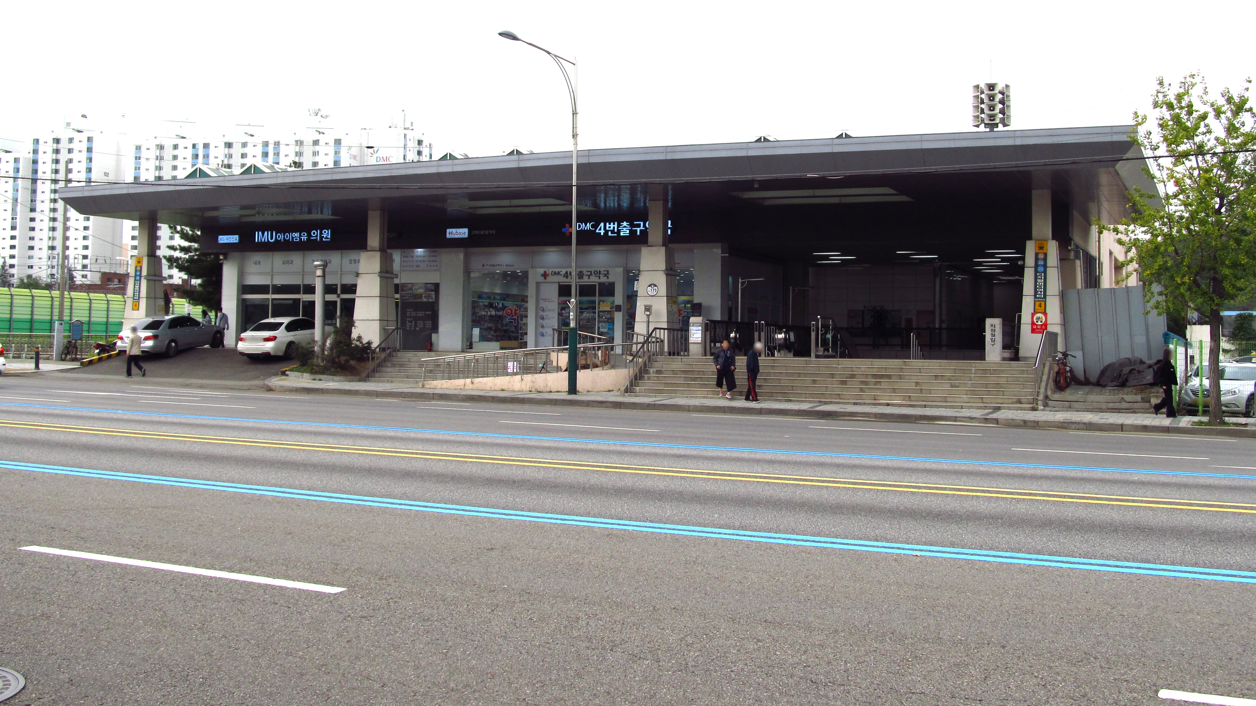 The no.4 entrance to Digital Media City Station on the Seoul Metro Line 6 and Gyeongui-Jungang Line and AREX in Eunpyeong-gu, Seoul, Republic of Korea(South Korea)